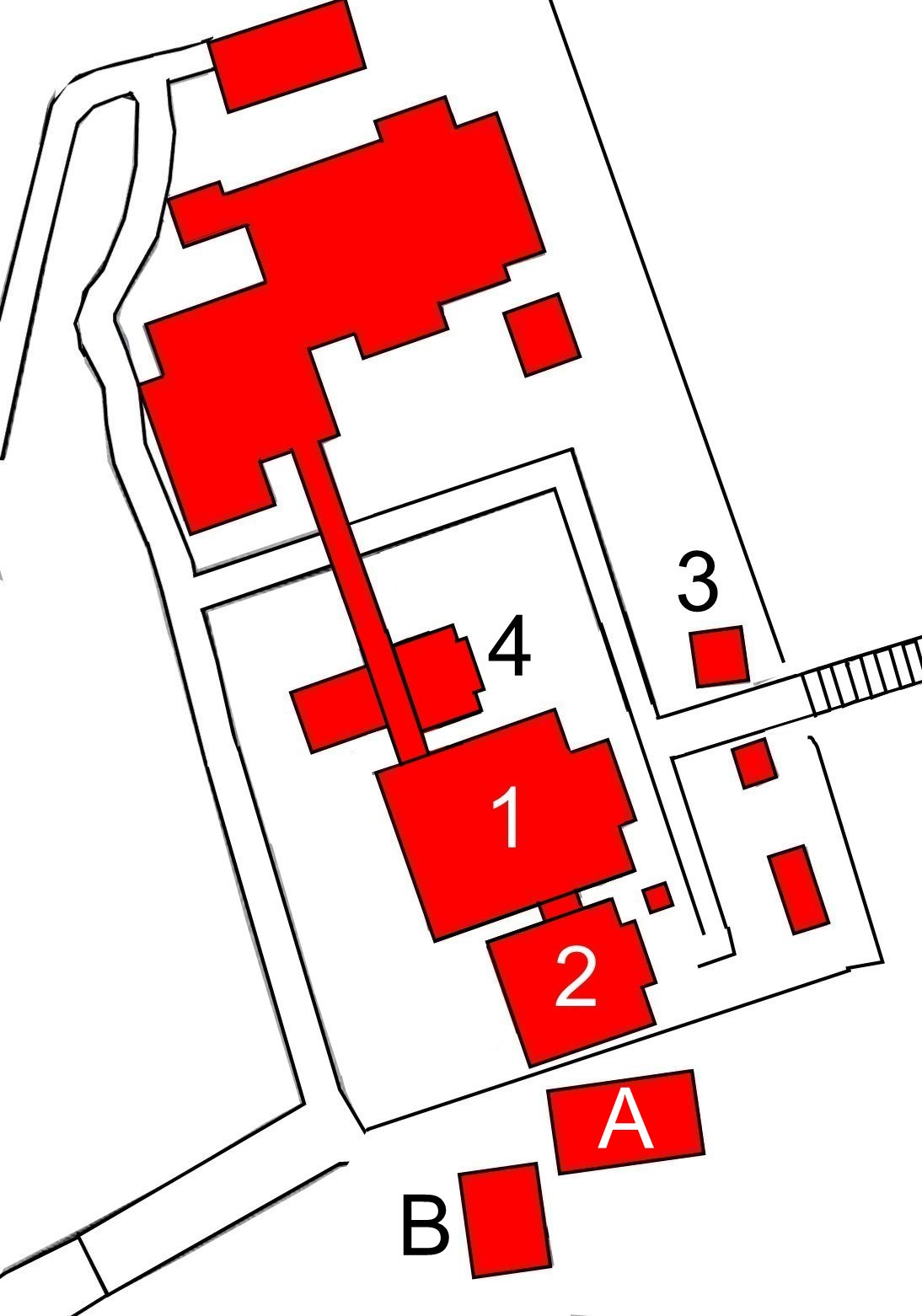 Layout of Daikô-ji (Mitoyo), Japan